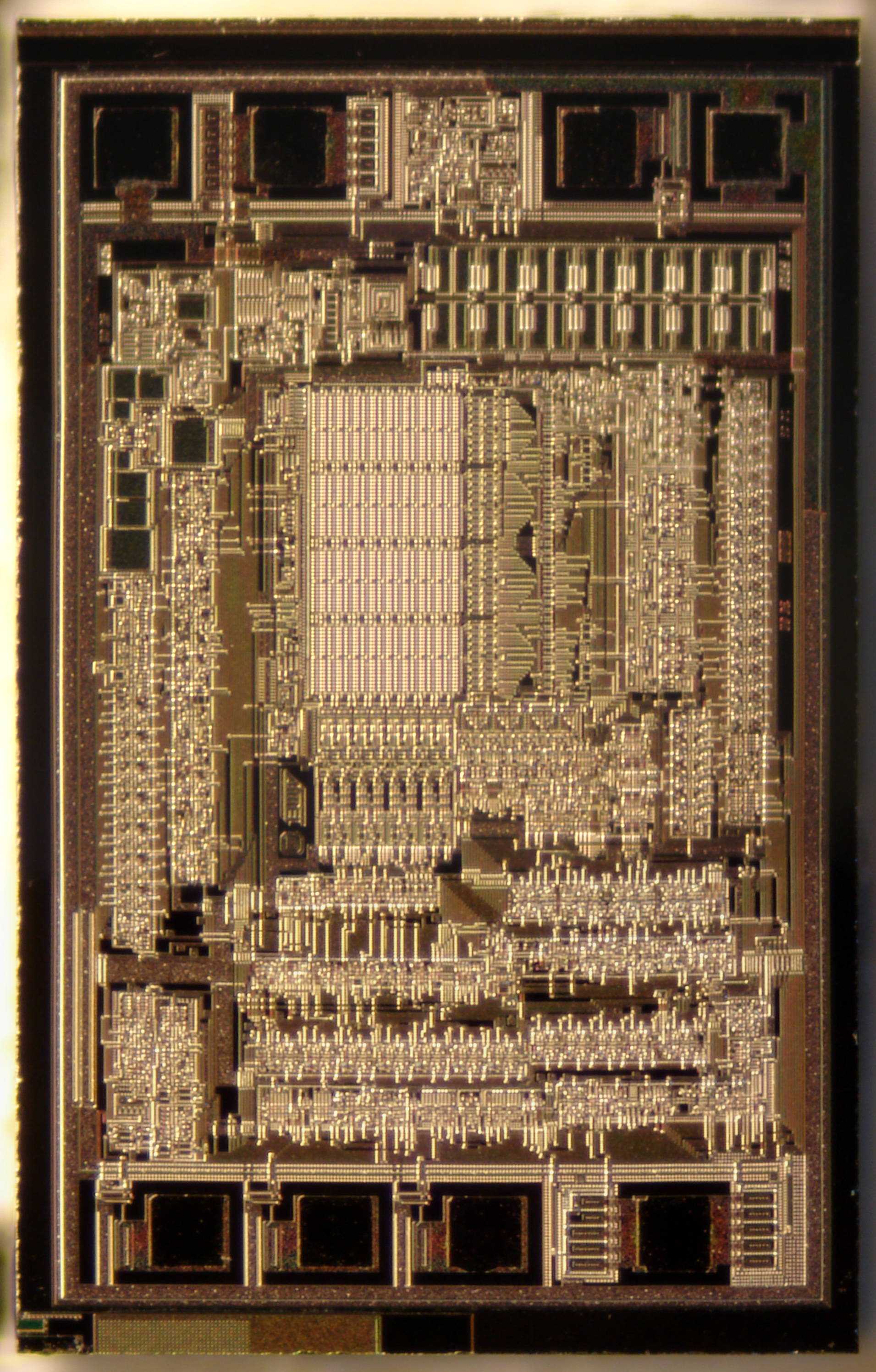 93C46A : 1K Microwire Compatible Serial EEPROM